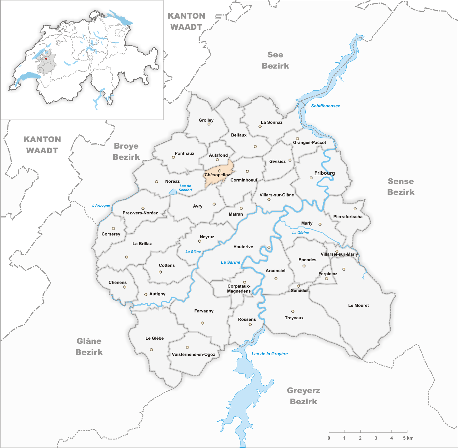 Municipality Chésopelloz